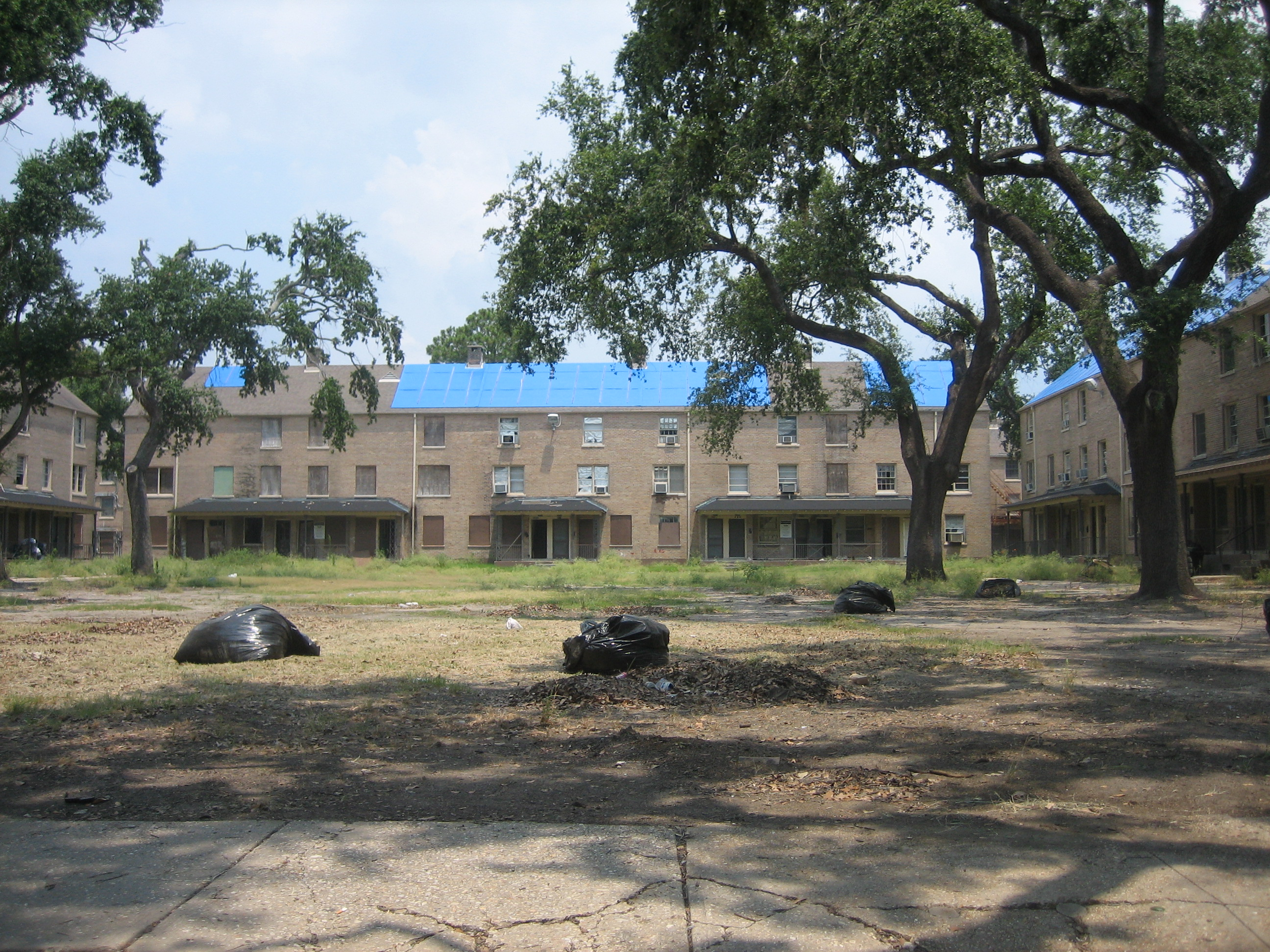 New Orleans after Hurricane Katrina: C.J. Peete development, much better known as the Magnolia Projects, largely vacant. Plans have been announced to demolish it. Note post-storm blue tarped roofs. Photo by Infrogmation, June 2006